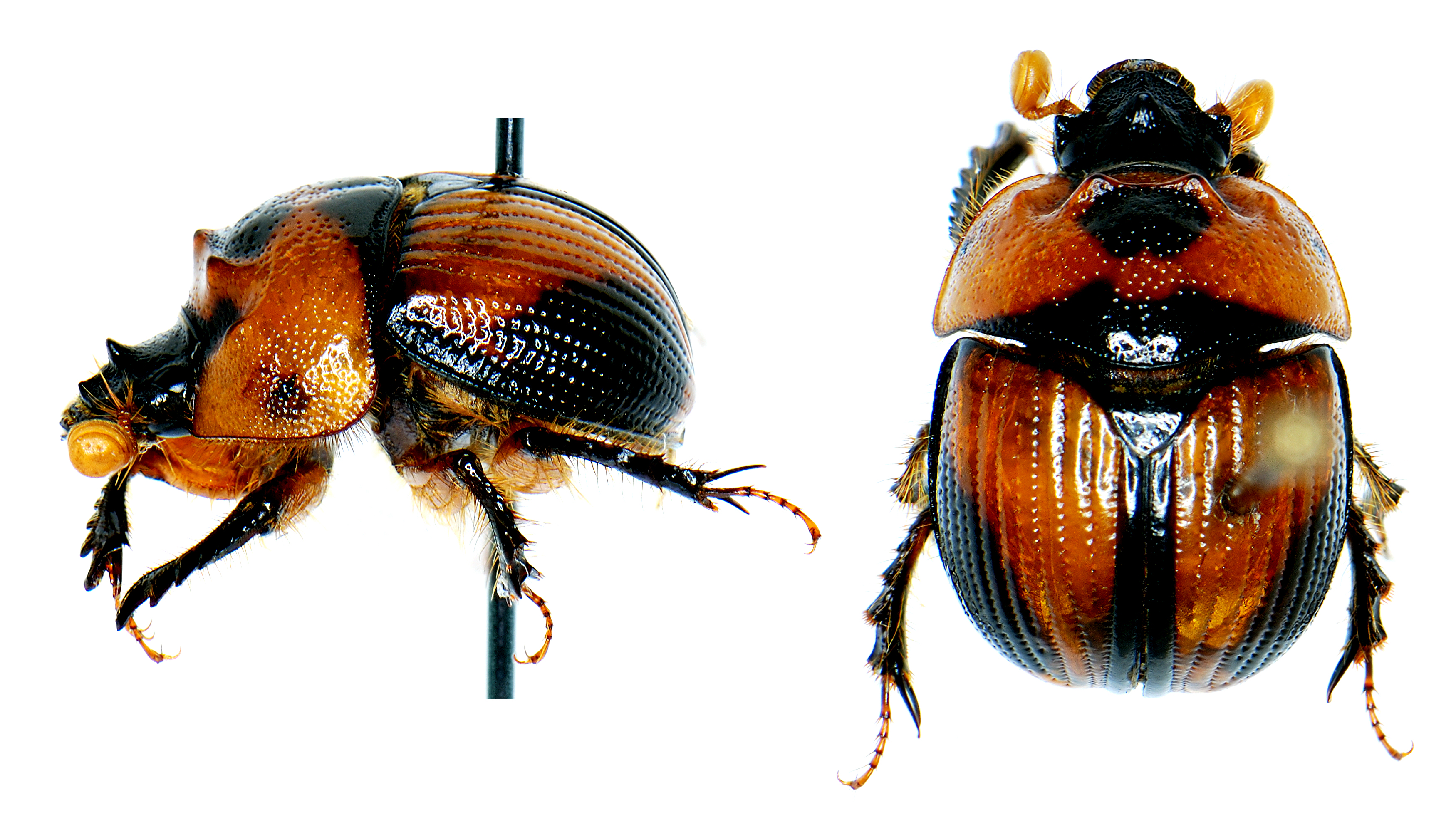 Specimen of Bolbocerosoma tumefactum (Beauvois), a rarely encountered relative of scarab beetles, seen in both lateral and dorsal views. This individual was collected in USA: Connecticut: Middlesex County: Killingworth, in a flight intercept trap set among mosses, between mixed woods (red maple, poplar, juniper et al.) and a blueberry patch at edge of a hayfield, 02-Jun to 04-Jul-2002, collector M.K. Oliver, in collection of same.